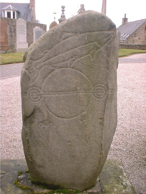 Pictish Stone Kintore Churchyard